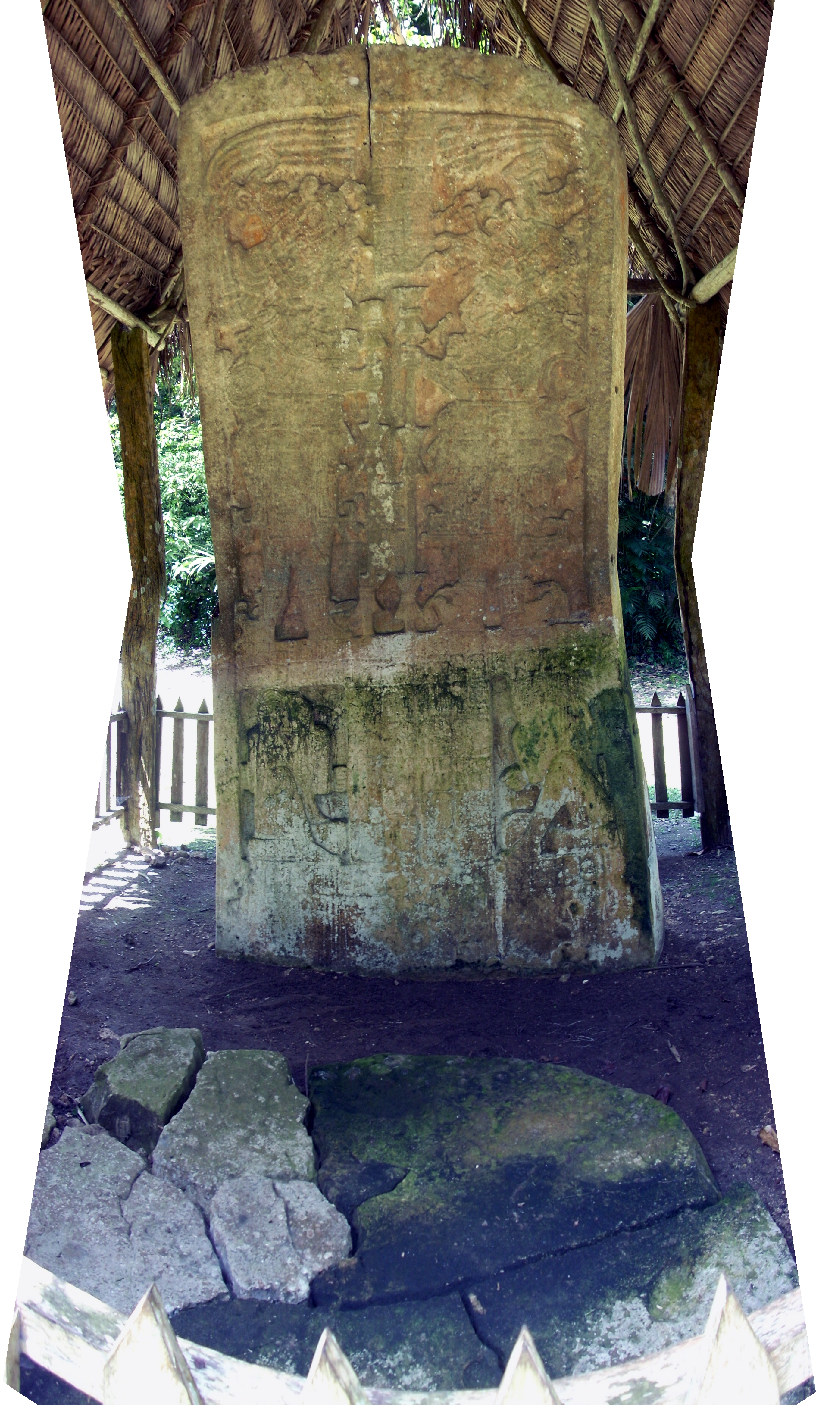 Stela 1 and Altar 1 at Ixkun Maya ruins, Peten, Guatemala. Stela 1 is claimed to be he largest stela in Peten.